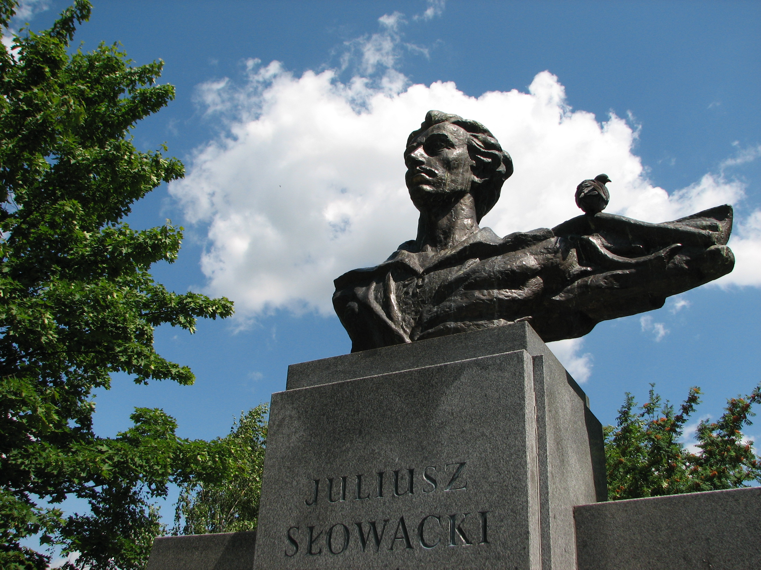 Juliusz Słowacki Monument in Lublin